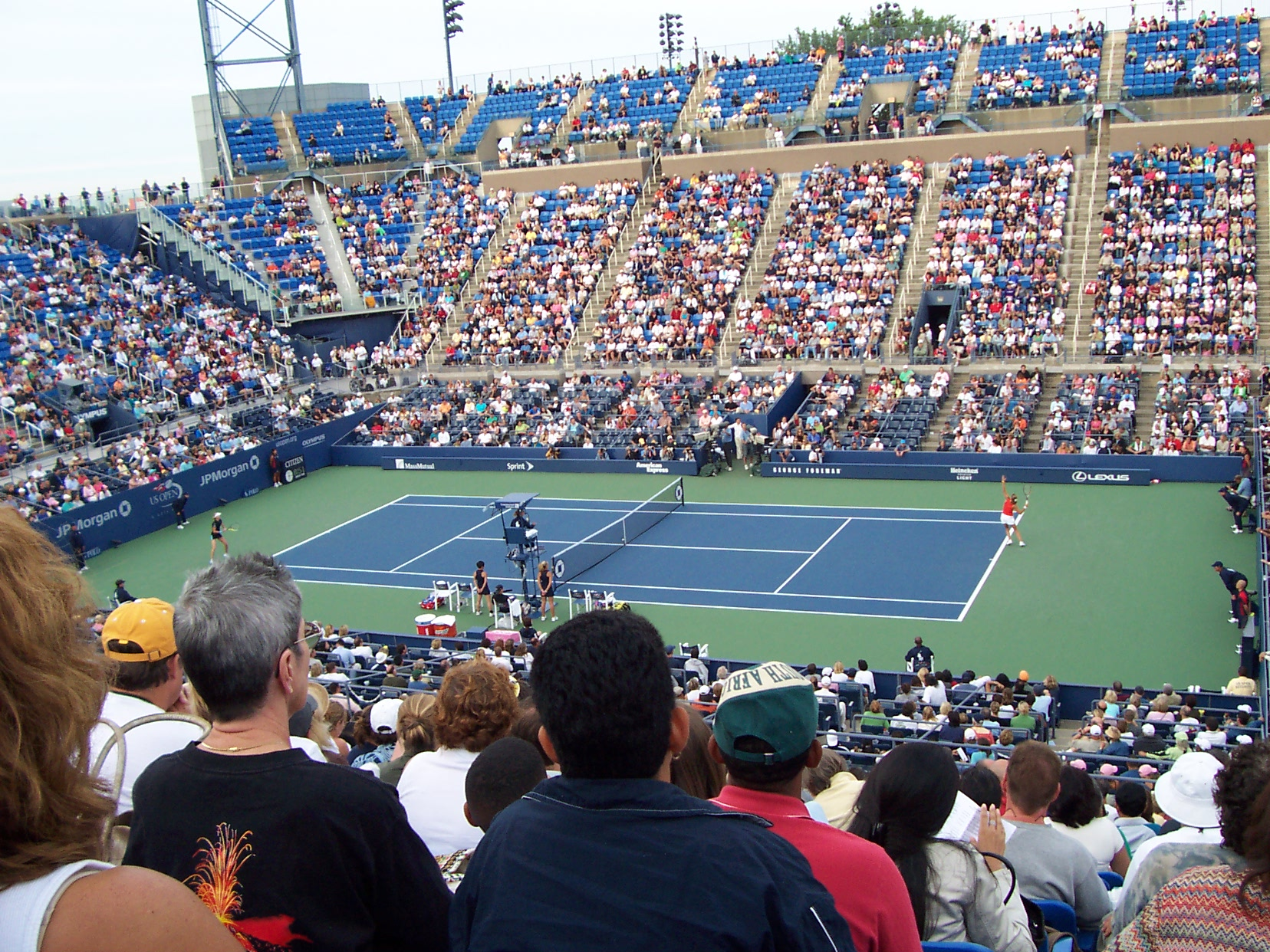 Amelie Mauresmo Playing At Luis Armstrong Stadium During 2006 U.S. Open